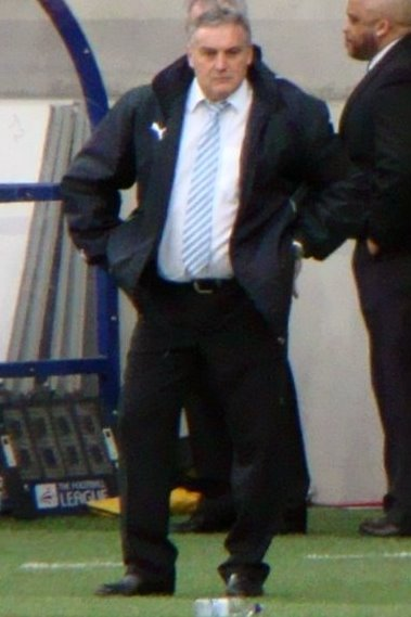 Jones Watches Closely